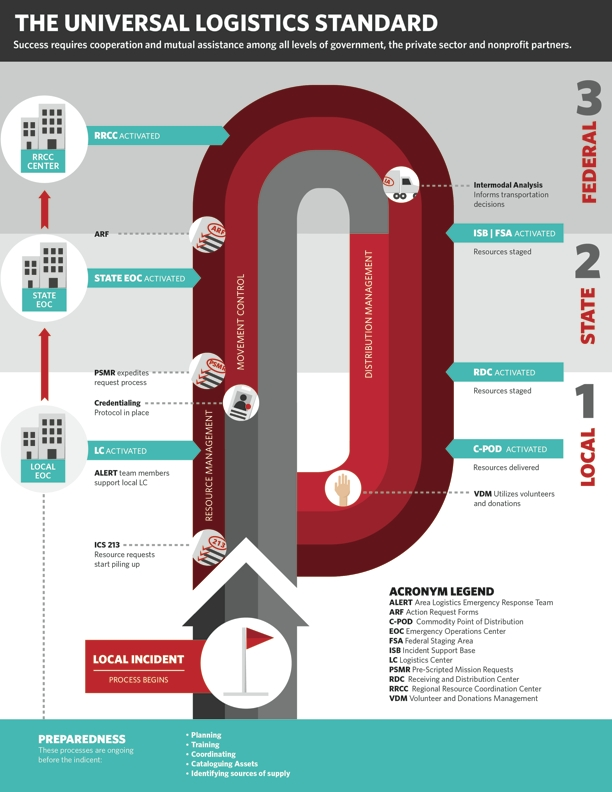 This diagram shows the Universal Logistics Standard, a strategic framework for managing disaster response among local, state, regional and federal disaster response personnel. The Universal Logistics Standard was developed by the Regional Logistics Program under the oversight of the NY-NJ-CT-PA Regional Catastrophic Planning Team.